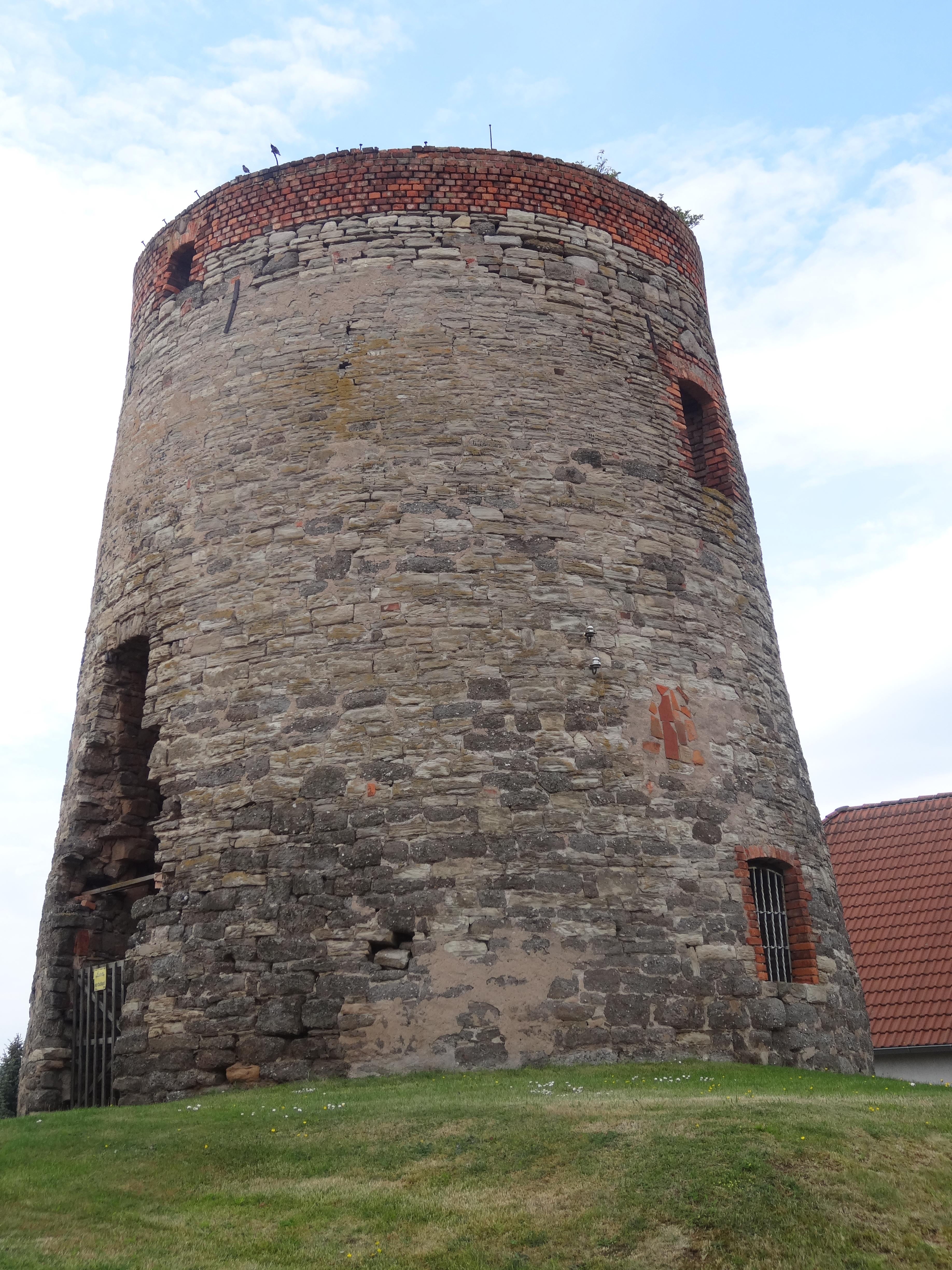 Windmill in Bottendorf, Thuringia, Germany